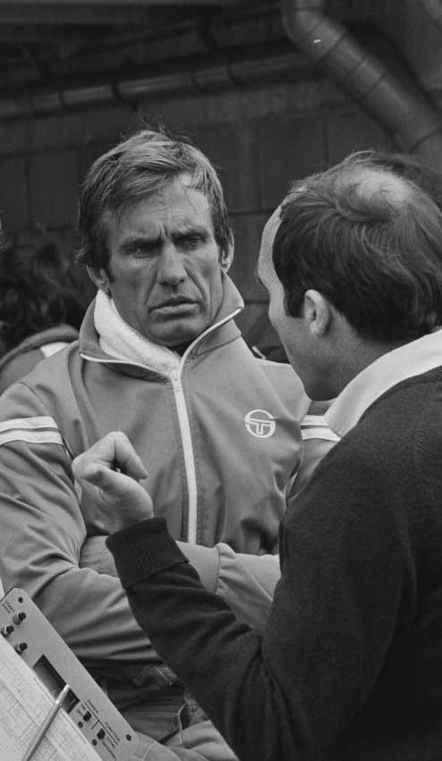 Argentine racer Carlos Reutemann with team owner Frank Williams.